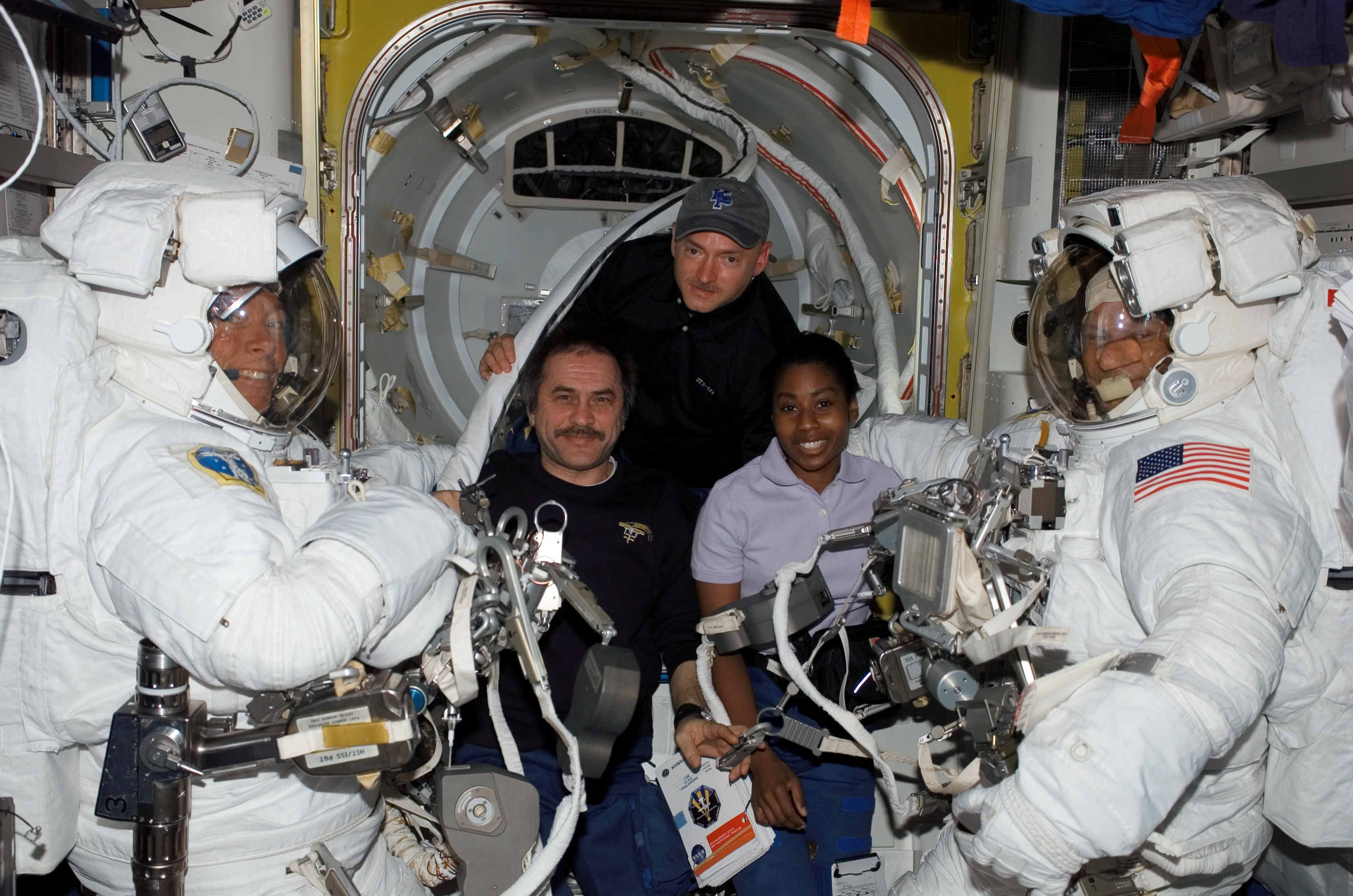 Astronauts Piers J. Sellers (right) and Michael E. Fossum, both STS-121 mission specialists, attired in their Extravehicular Mobility Unit (EMU) spacesuits, along with cosmonaut Pavel V. Vinogradov (center left), Expedition 13 commander representing Russia's Federal Space Agency; astronauts Mark E. Kelly and Stephanie D. Wilson, STS-121 pilot and mission specialist, respectively, pause for a moment for a photo as they prepare for the start of the mission's second scheduled session of extravehicular activity (EVA) in the Quest Airlock of the International Space Station.